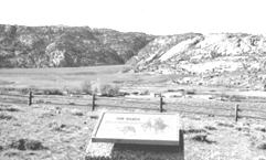 Overview of the Tom Sun Ranch, a National Historic Landmark located near Independence Rock in the vicinity of Casper, Wyoming, United States. The ranch is split between Carbon and Natrona counties.